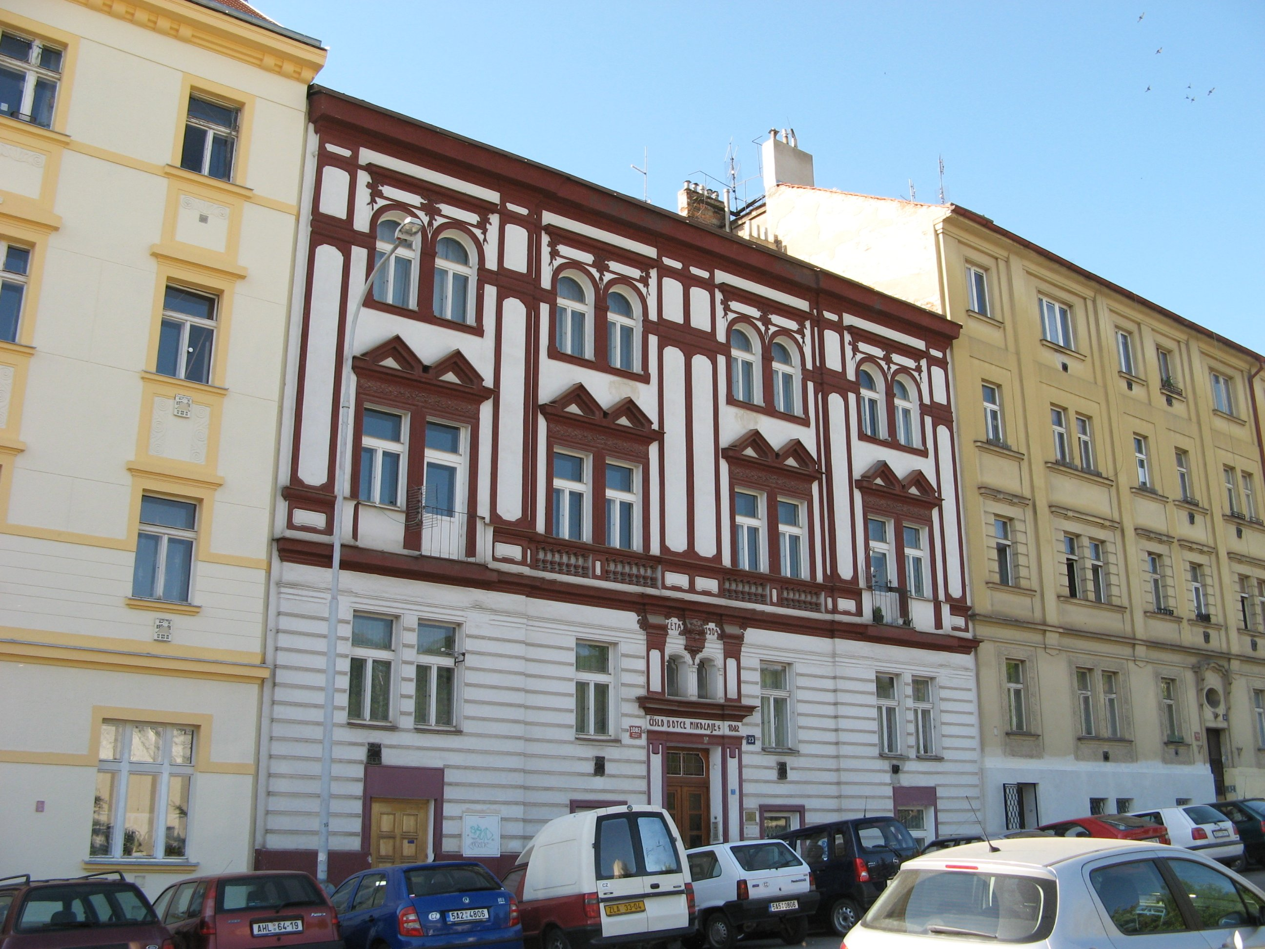 U Nikolajky 23 in Prague, house U otce Nikolaje